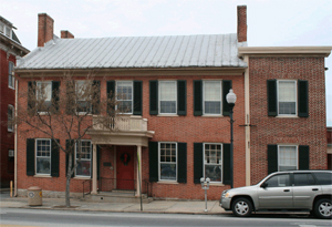 Plain front image of the Alexander Hamilton Memorial Free Library in Waynesboro, PA.